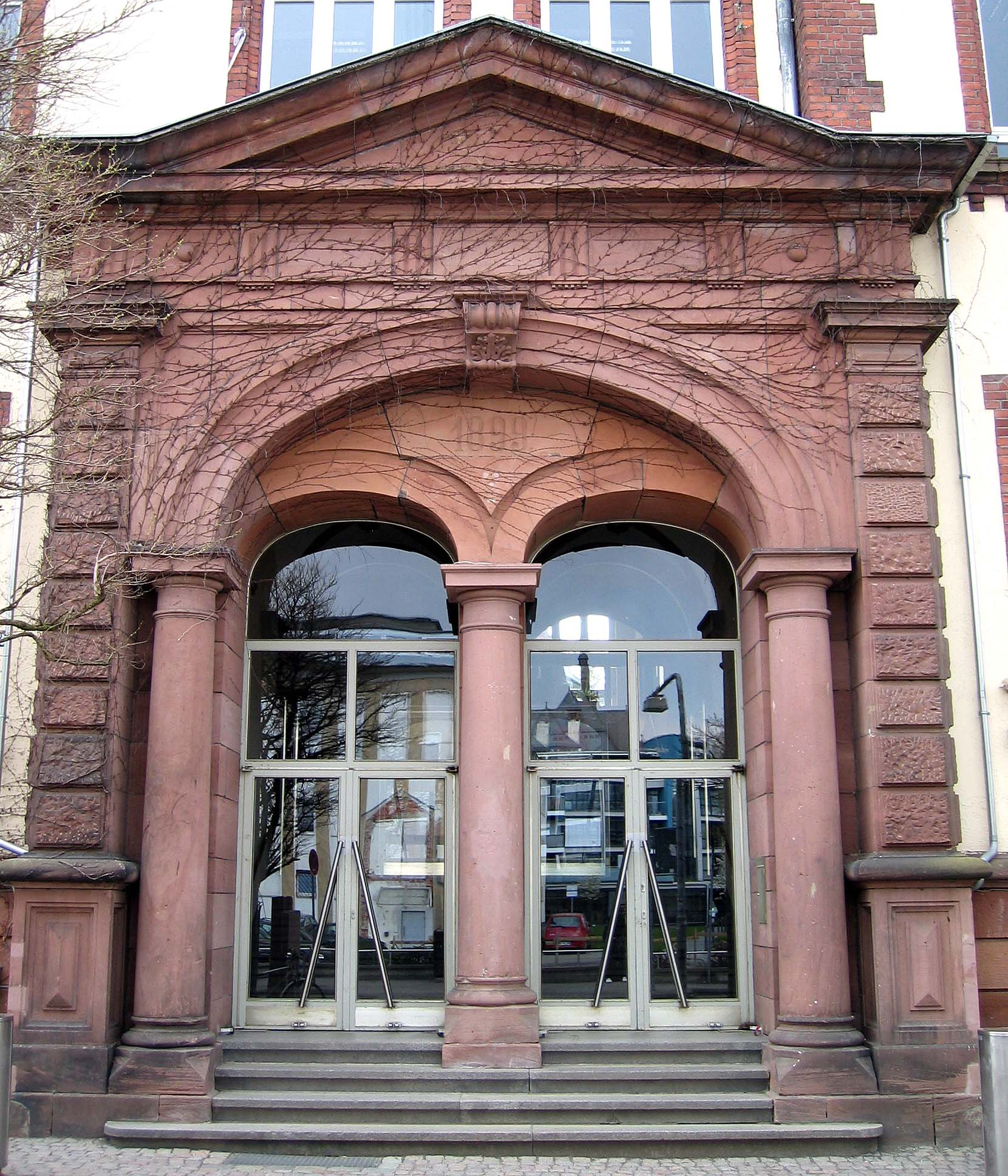 main entrance of school in Marburg/Germany